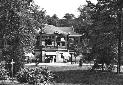 Chinese pavilion Dresden (Saxony, Germany) 1914